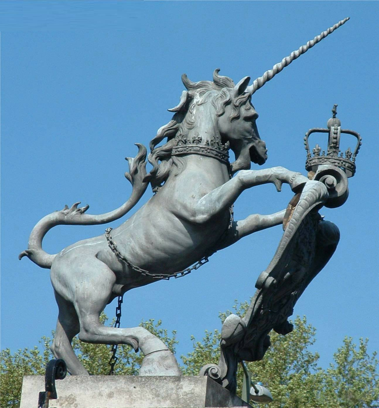 The statue of unicorn on the Main Entrance Gatepost of the Hampton Court Palace, London, United Kingdom.